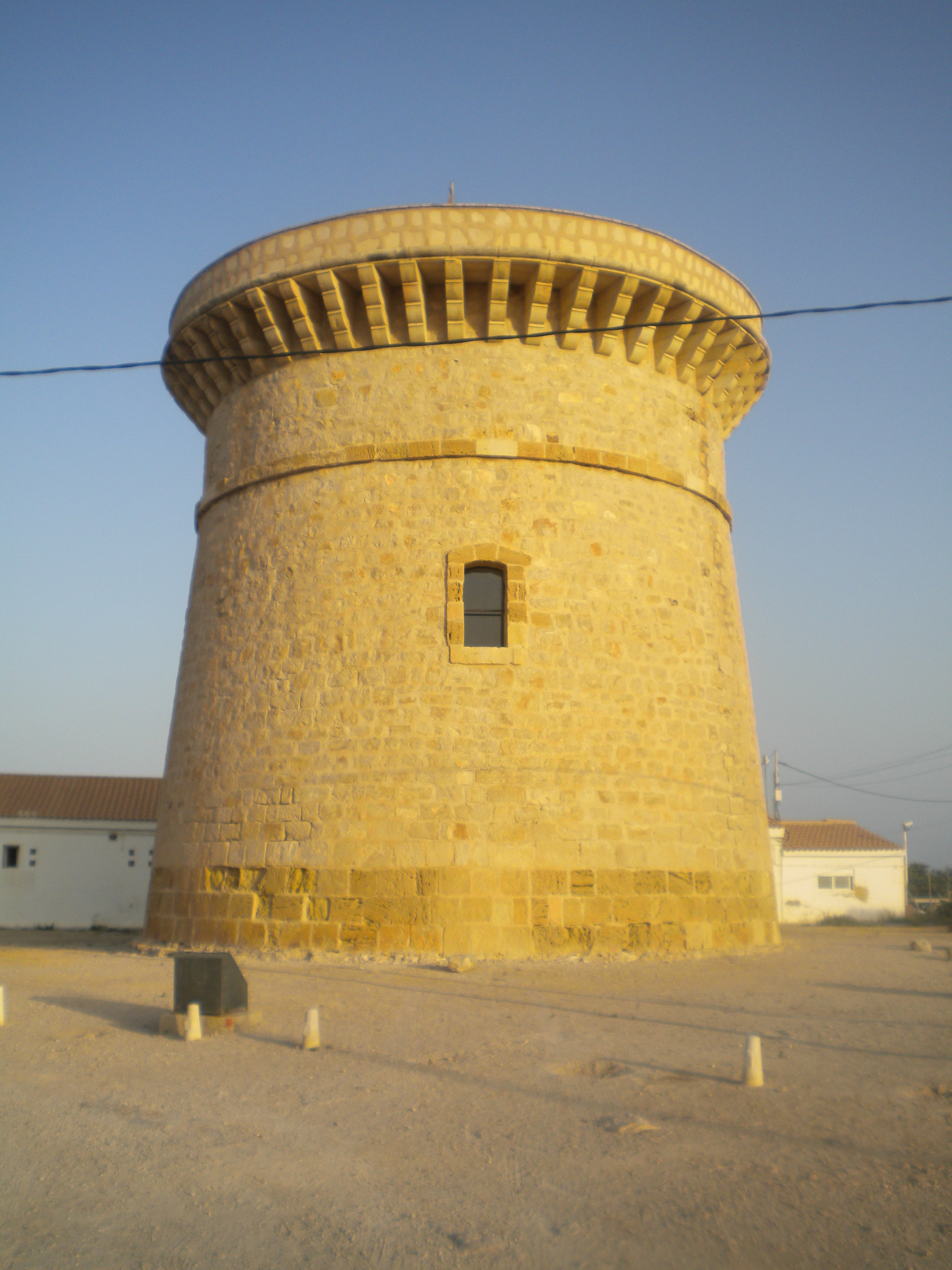 Coastal Watchtower in Campello (Alicante, Spain)